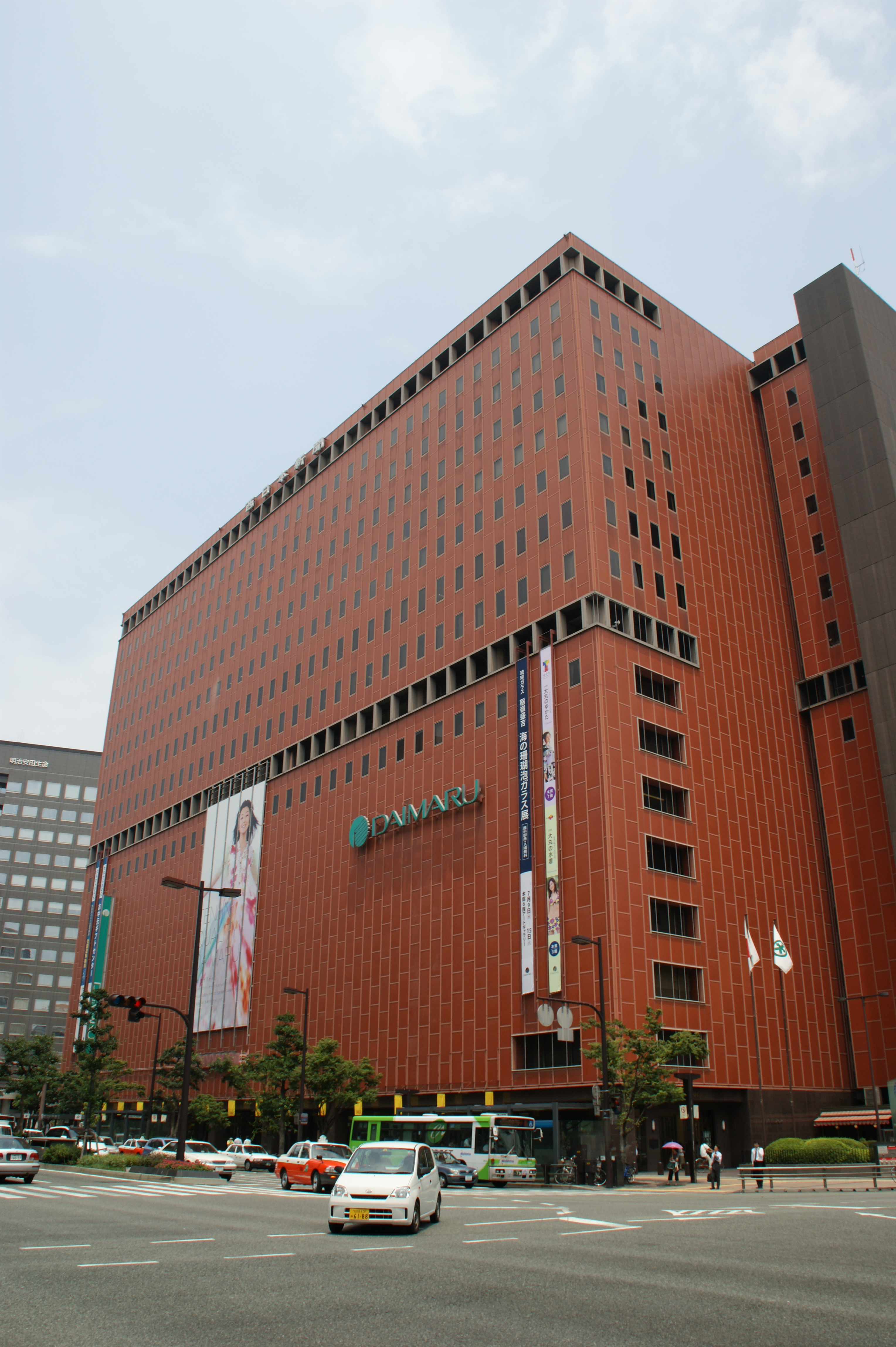 Nishinippon Shimbun, Headquarters.(Chuo Ward, Fukuoka City, Fukuoka Prefecture, Japan)